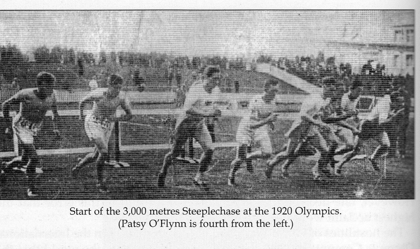 3,000 m steeplechase